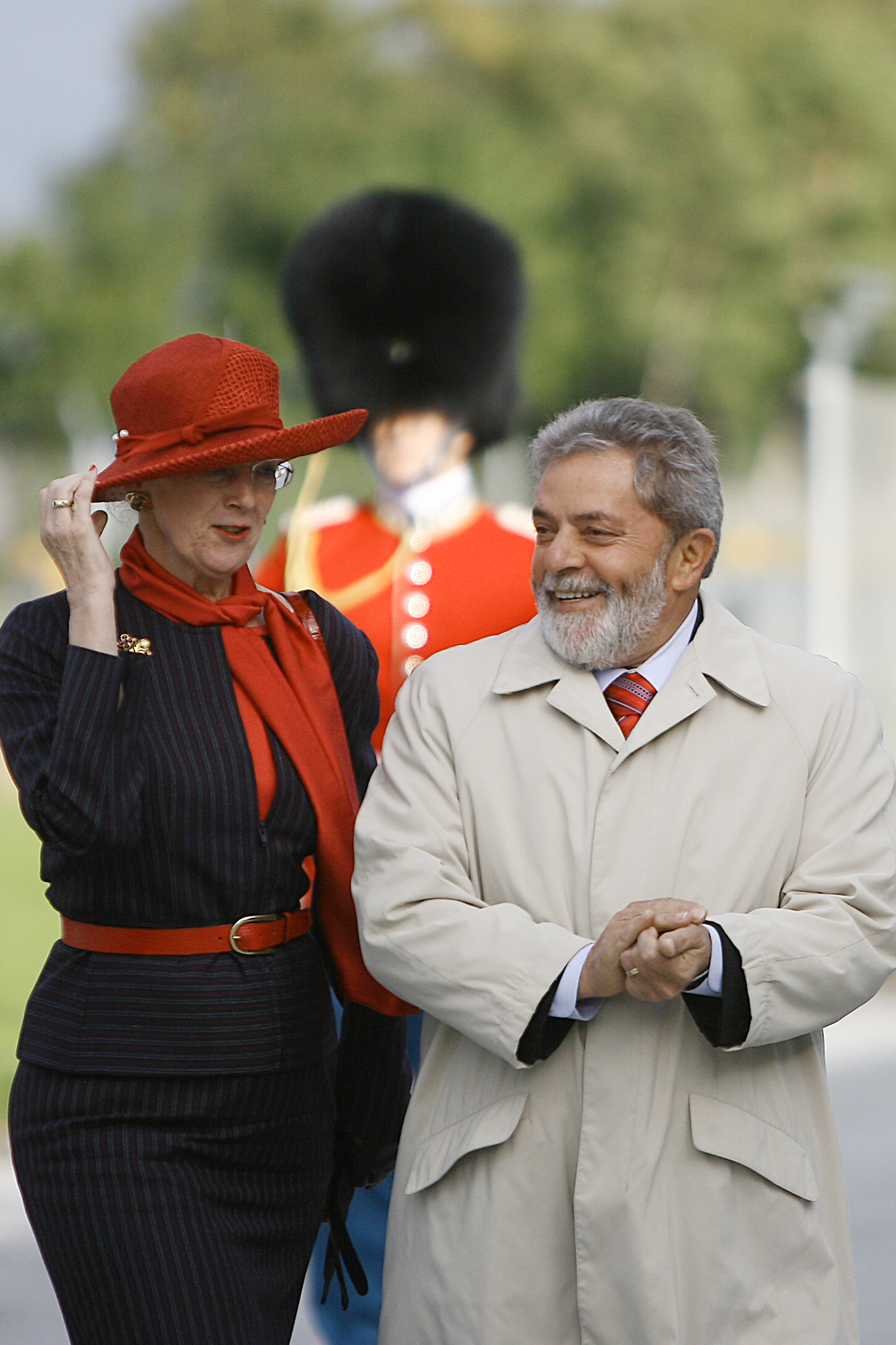 Queen Margrethe II of Denmark meets with Brazilian President, Lula, during the Brazilian president's visit to Denmark.